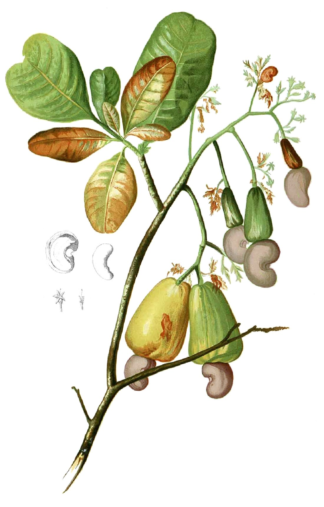 Plate from book